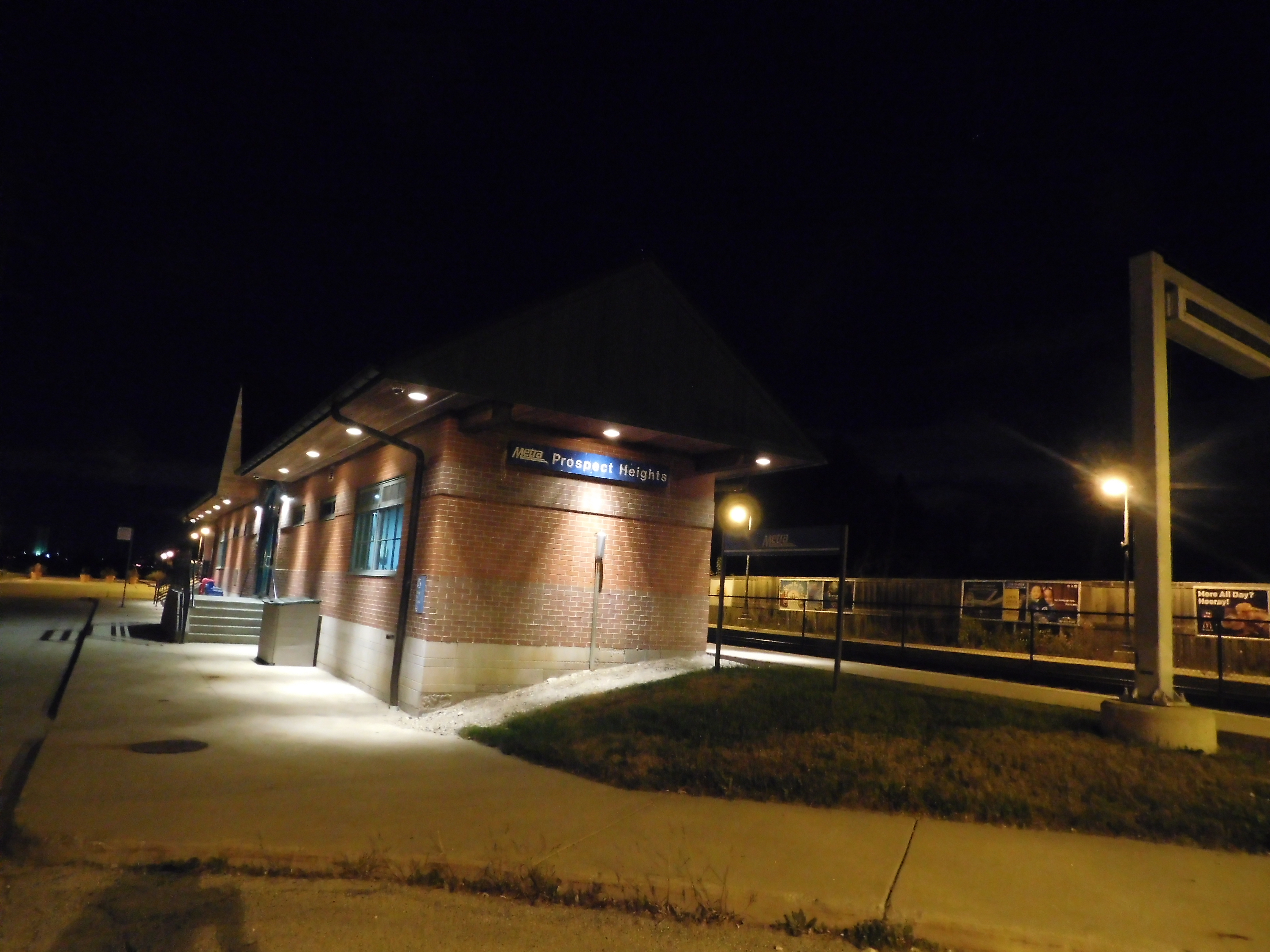 The Prospect Heights Metra station for the North Central Service.